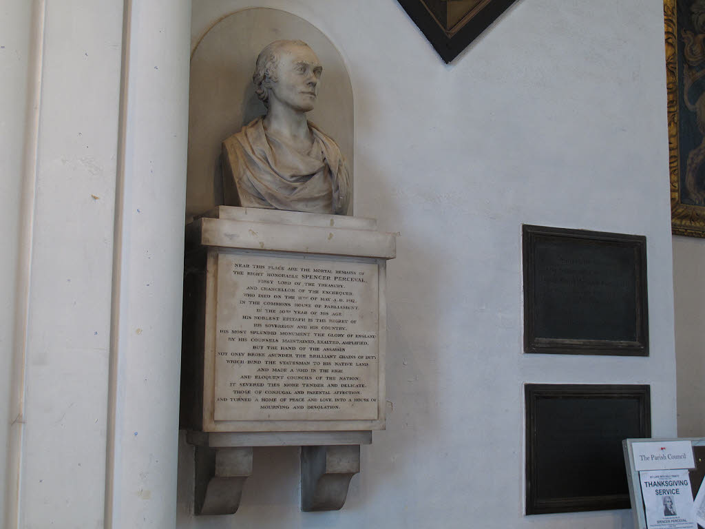 Memorial to Spencer Perceval